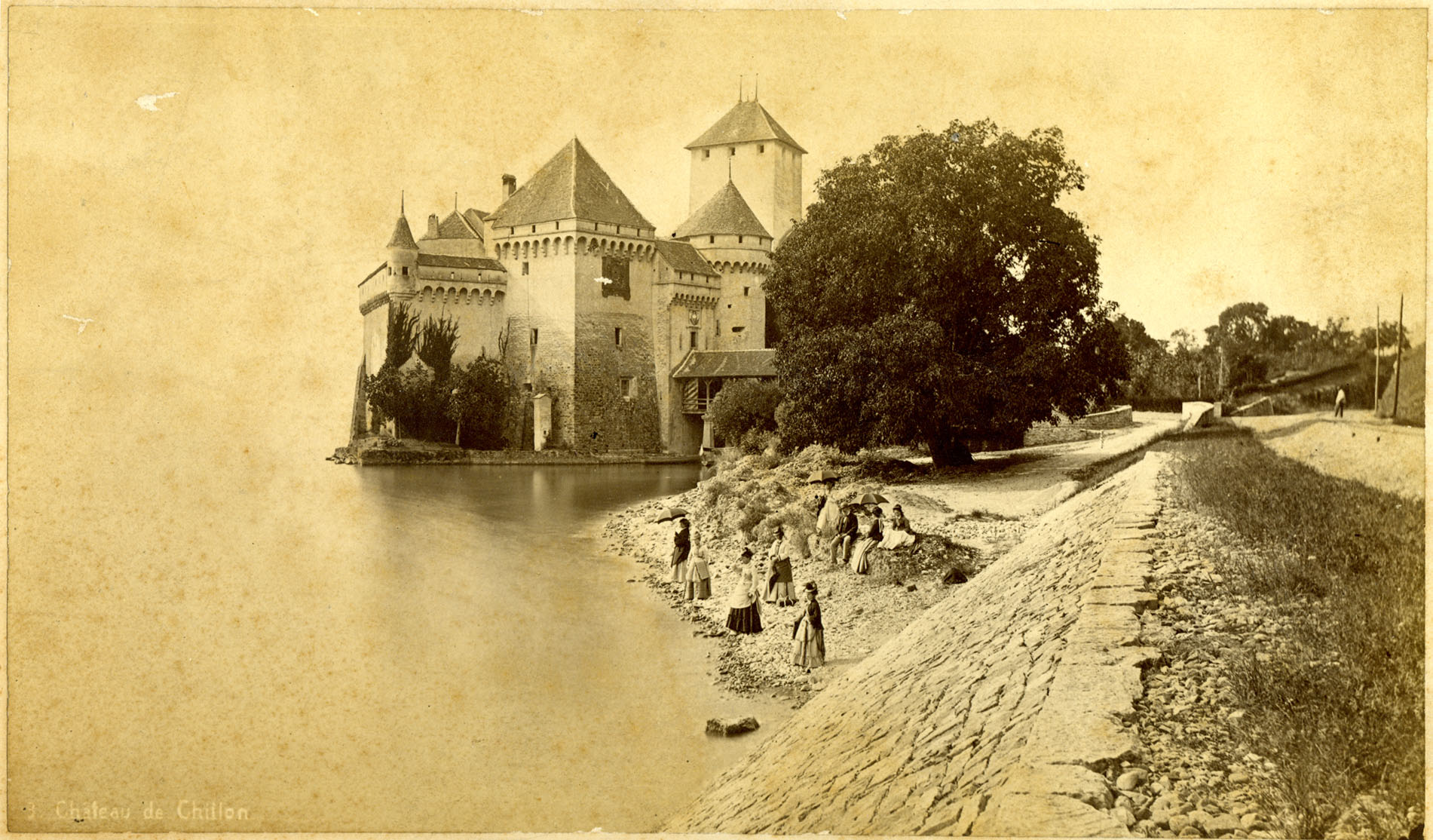 Silver-gelatin print of Chateau de Chillon in Switzerland